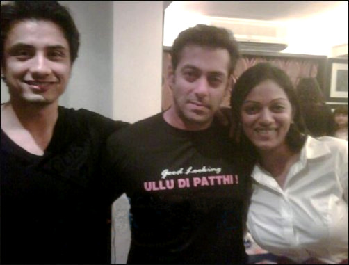 Salman Khan at the private screening of Tere Bin Laden wearing "Ullu Di Patthi" T-Shirt.